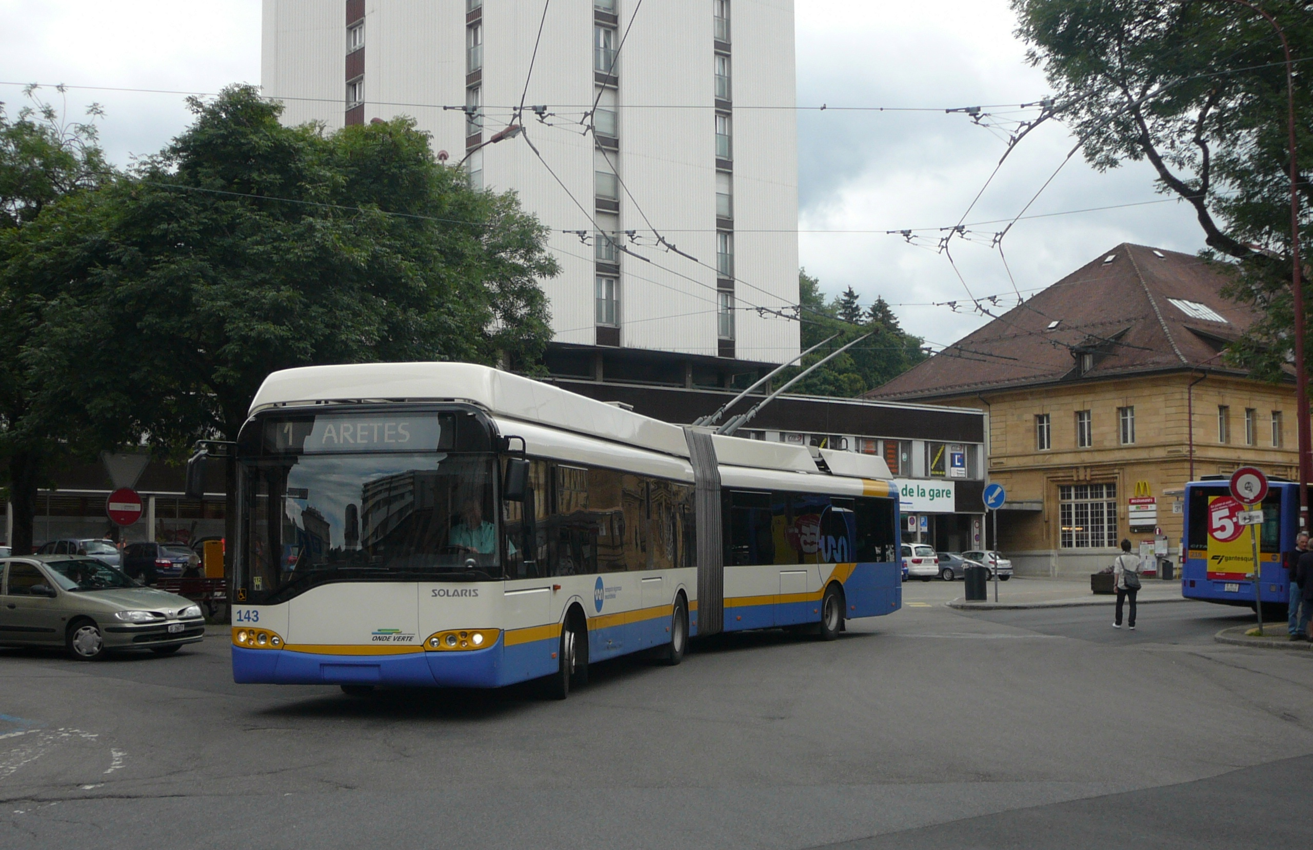 Solaris Trollino 18AC trolleybus (#143, built 2005) in La Chaux-de-Fonds, Switzerland. Transports Régionaux Neuchâtelois (TRN) operator.